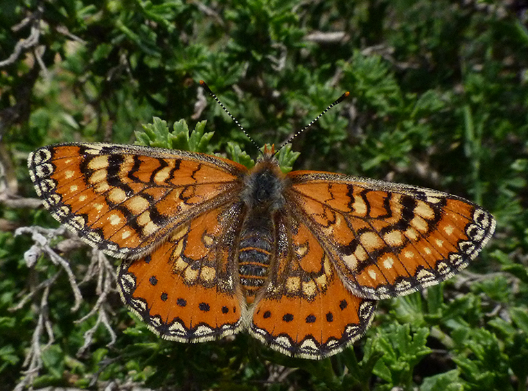 Adult near Montsonís, Catalonia.